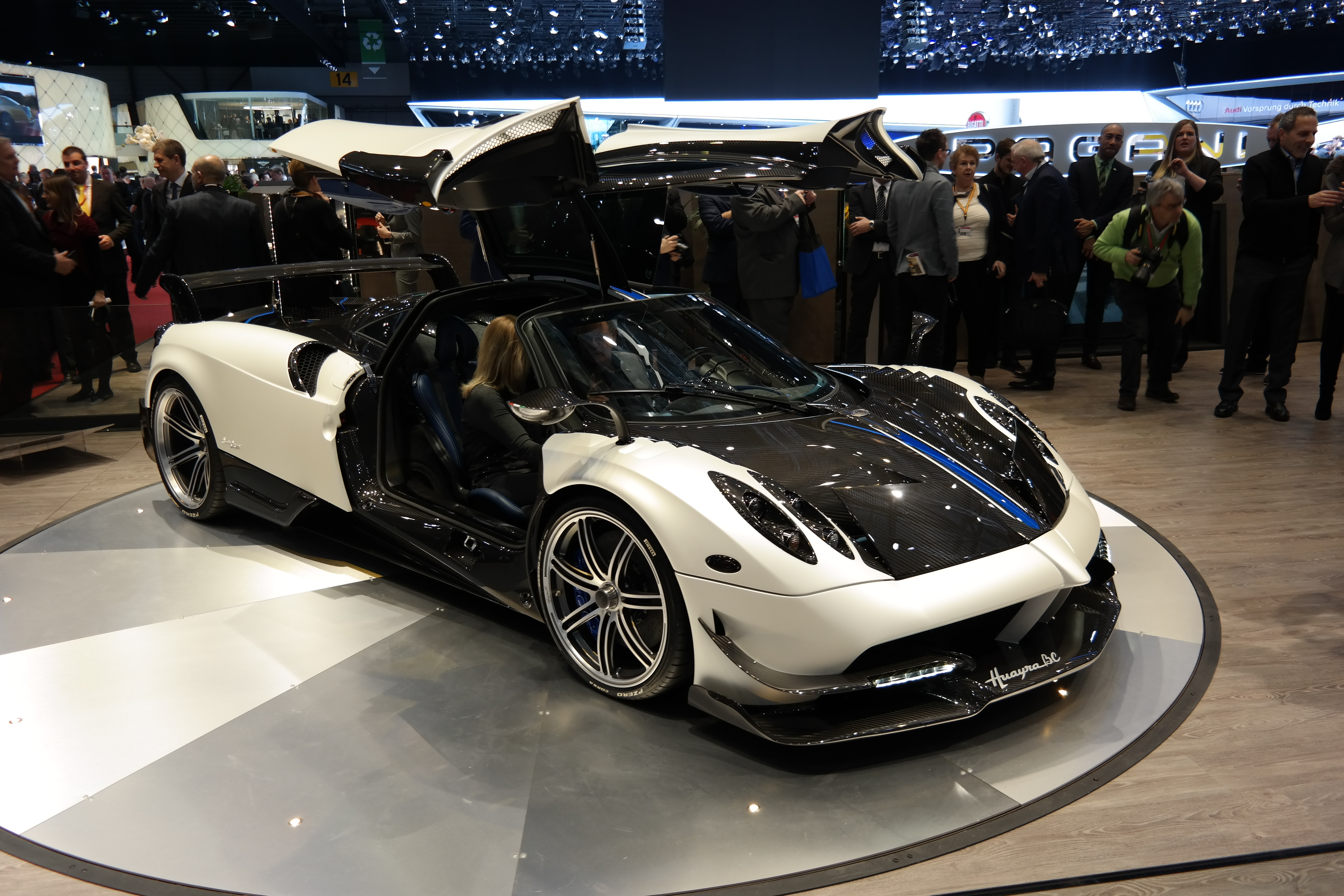 Geneva Motor Show 2016 (photo taken on the first press day)